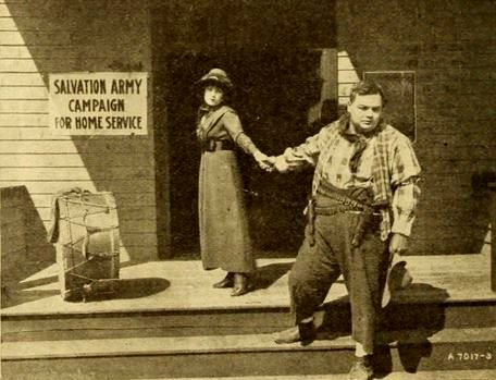 Still from the American comedy film A Desert Hero (1919) with Roscoe Arbuckle and Molly Malone, on page 1962 of the June 28, 1919 Moving Picture World.